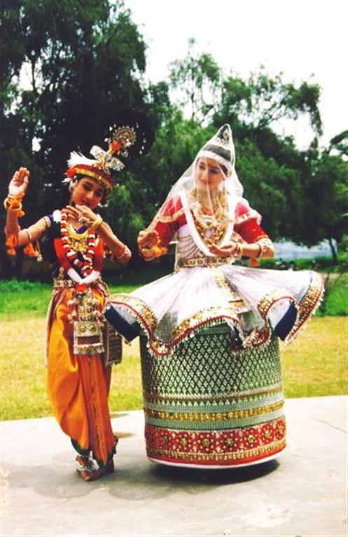 Ras Lila-a classical Manipuri Dance form depicting the Krishna-Radha Love story